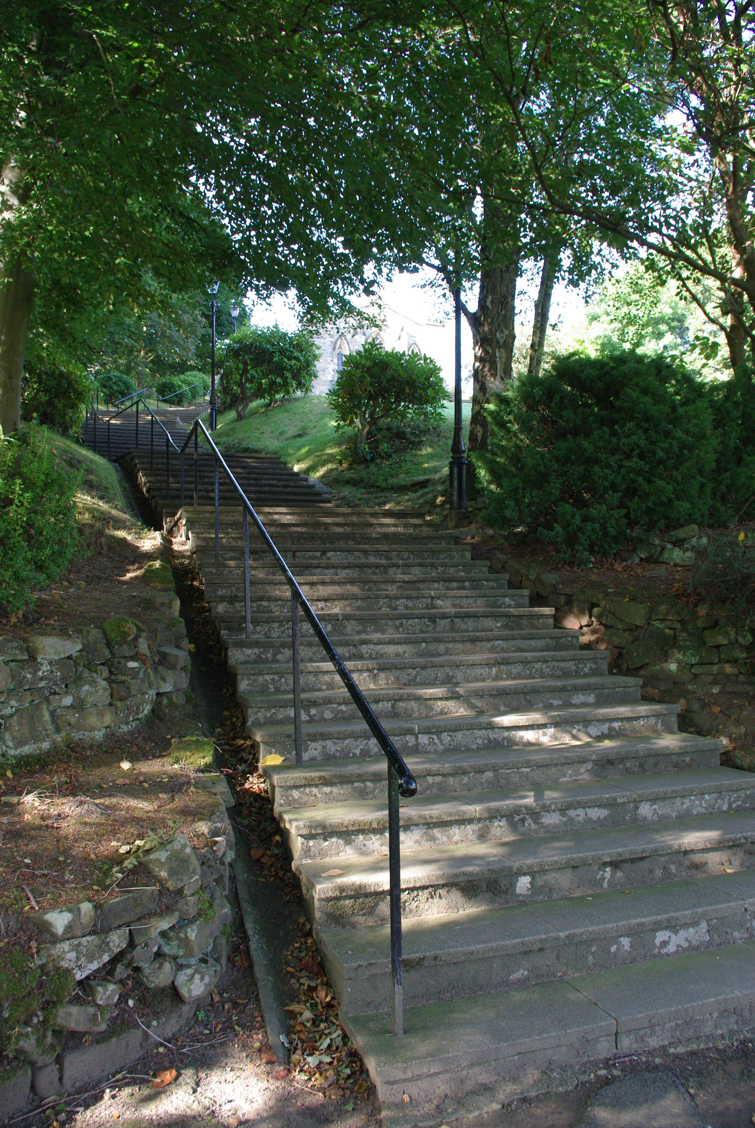 These are the chapel steps at Durham School, they form part of the war memorial, one step for each old boy who died in World War I